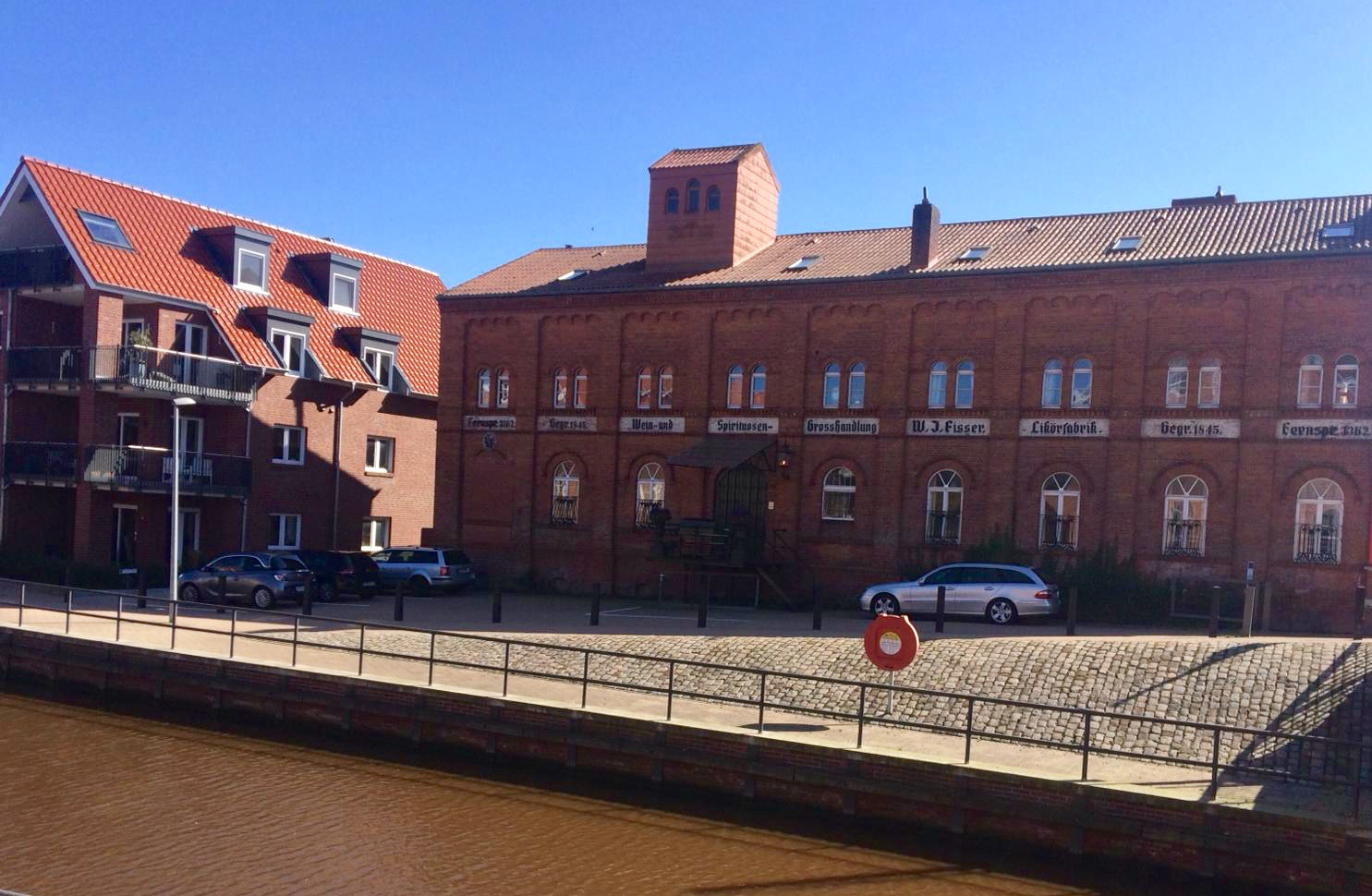 Haus am Roten Siel - Wj Fisser in Emden